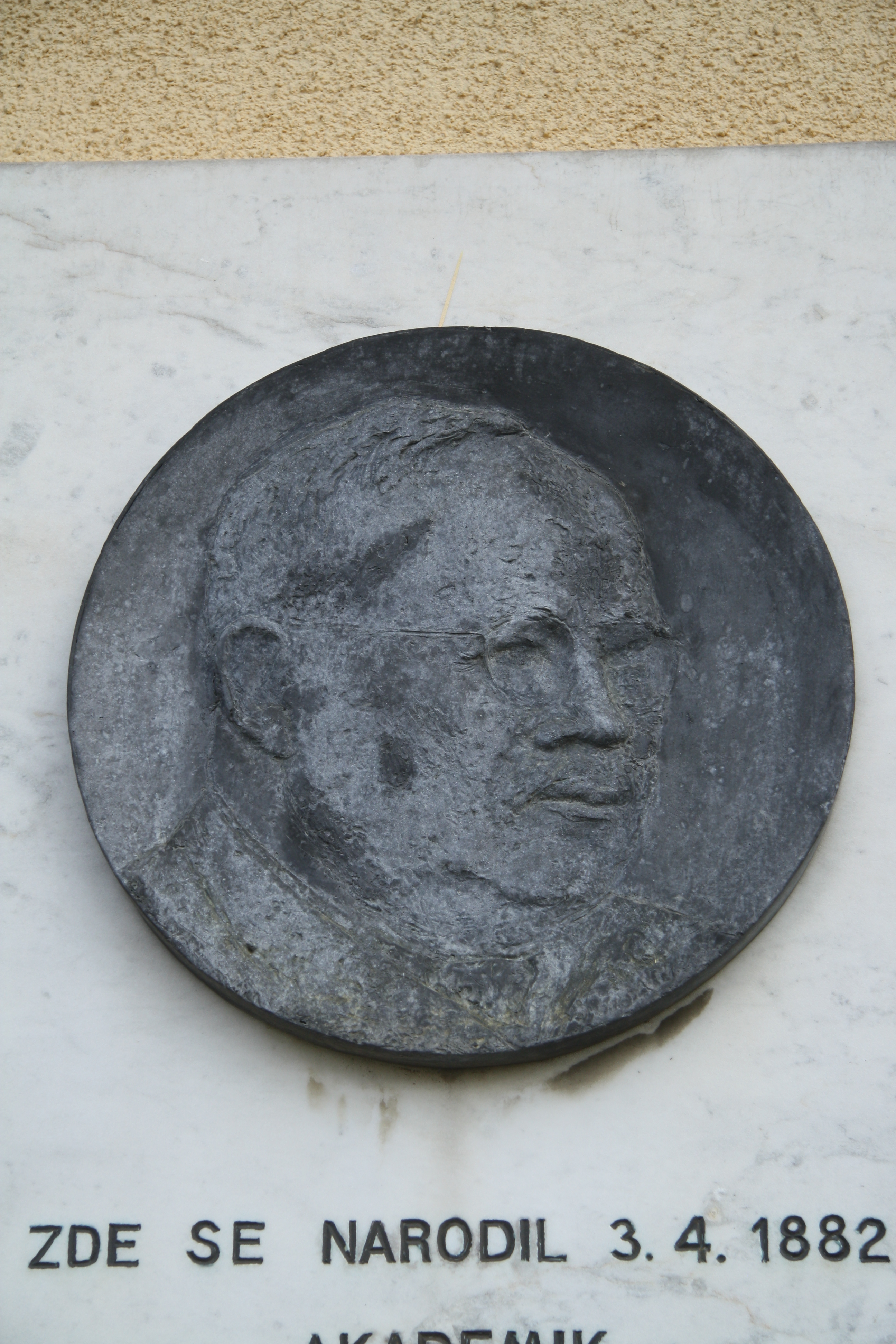 Detail of plaque of Vincenc Lesný in Komárovice, Třebíč District.